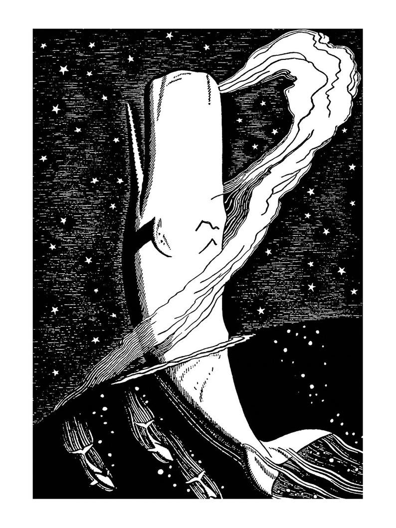 Ink Illustration form 1930 edition from Moby Dick